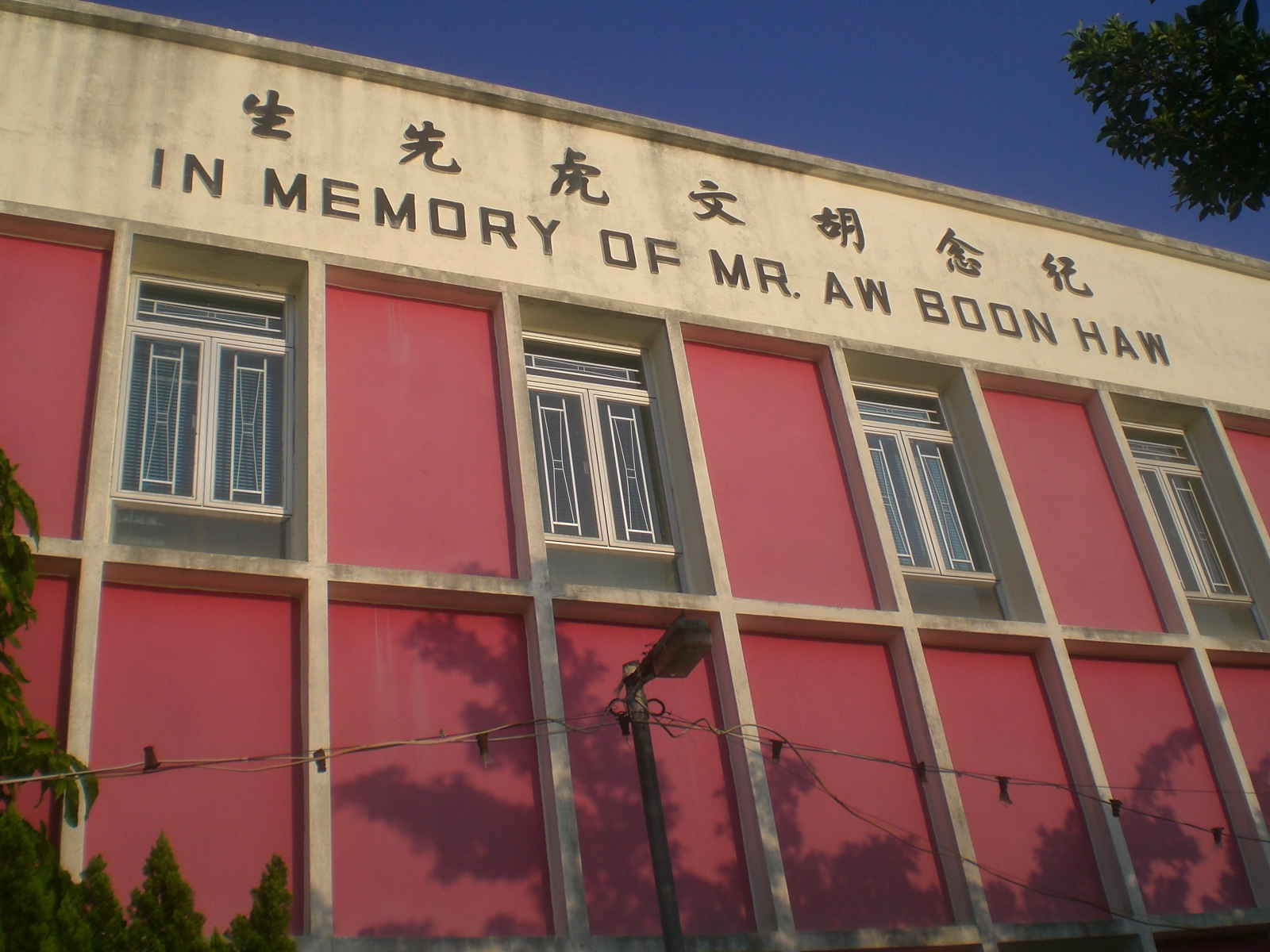 胡文虎 黃昏 海濱學校